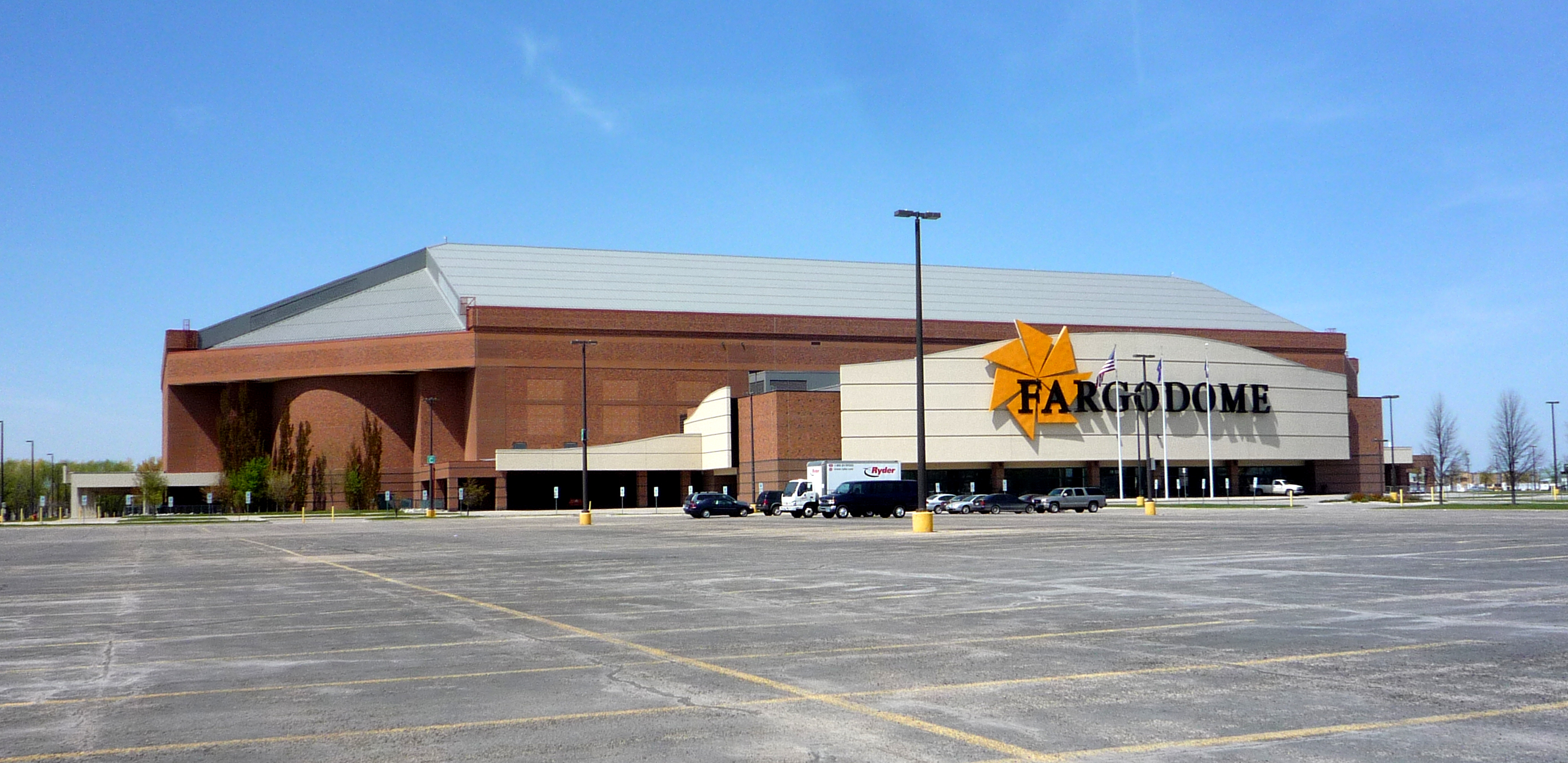 The Fargodome in Fargo, North Dakota.